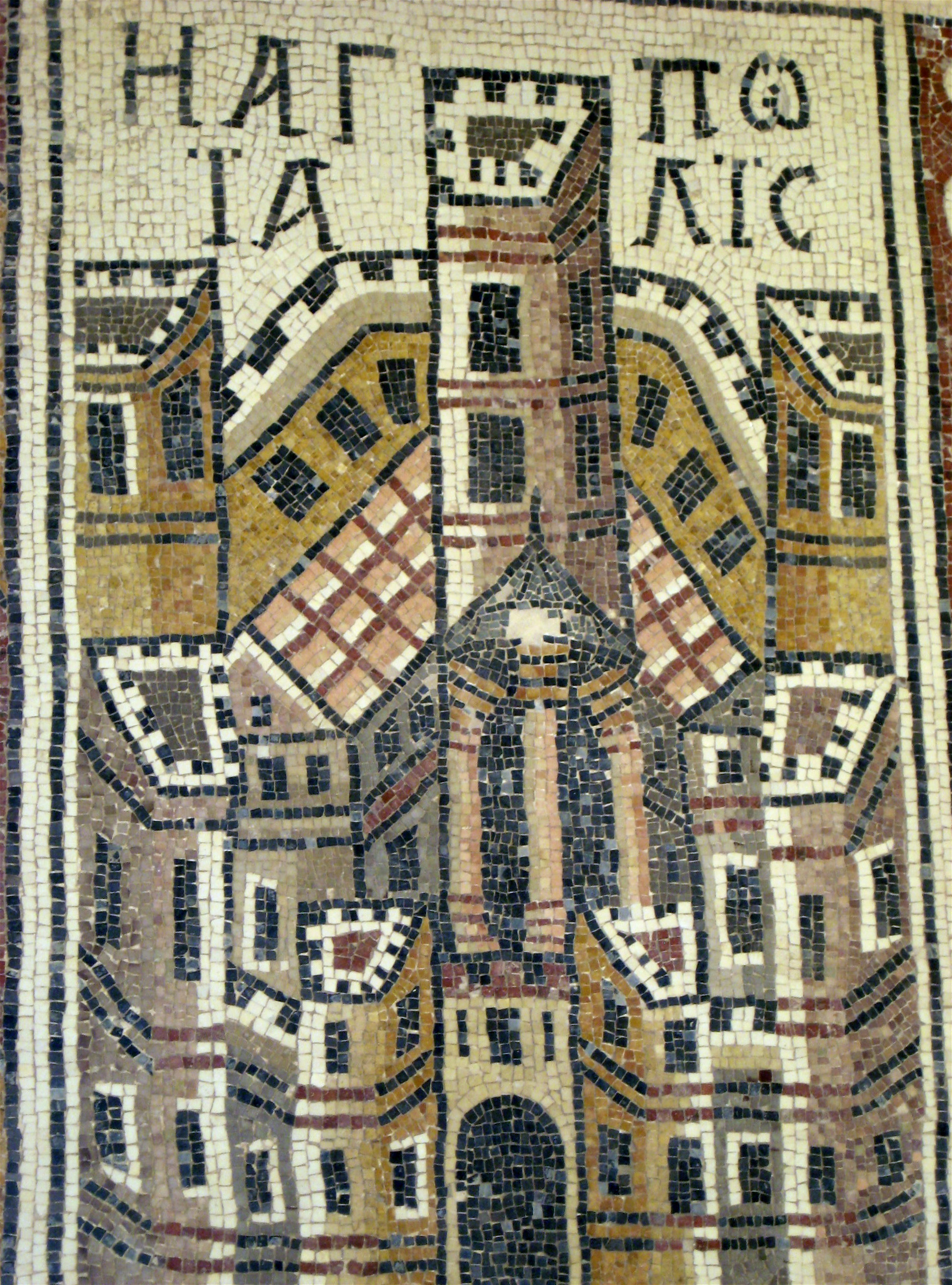 Mosaic depicting an ancient city ("Haghia Polis Yerusalem", now Jerusalem) in Saint Stephen Church located in Umm Rasas, Jordan.